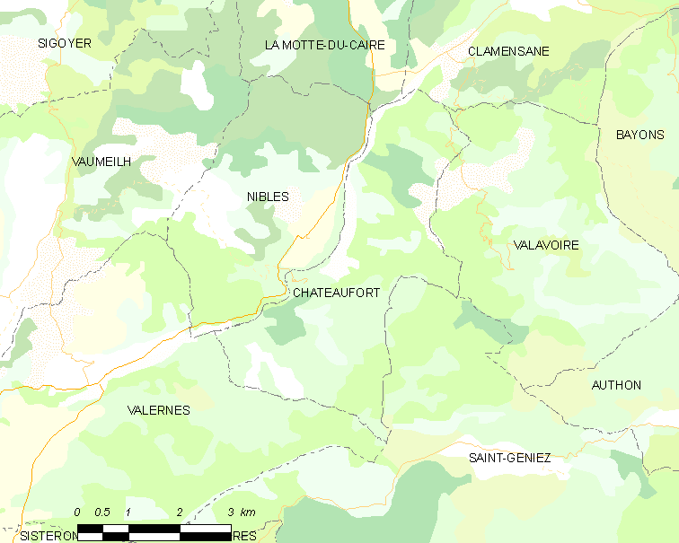 Map commune FR insee code 04050.png Légende